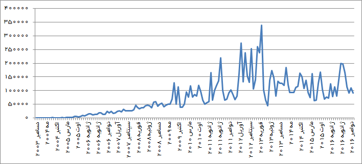 Number of edits in Persian Wikipedia (Dec 2003 - Dec 2016)